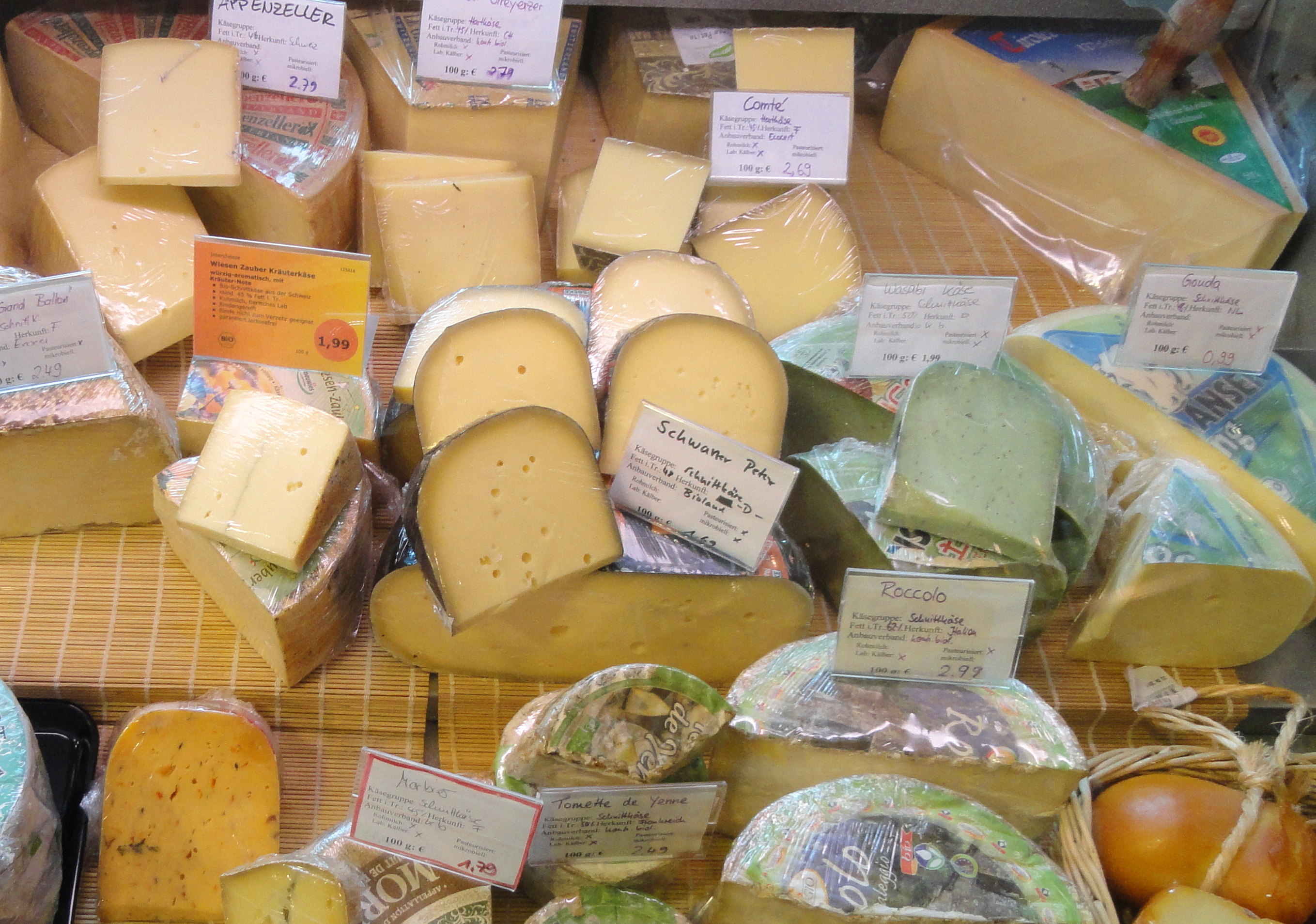 Cheese for sale in Freiburg im Breisgau, Baden-Württemberg, Germany.